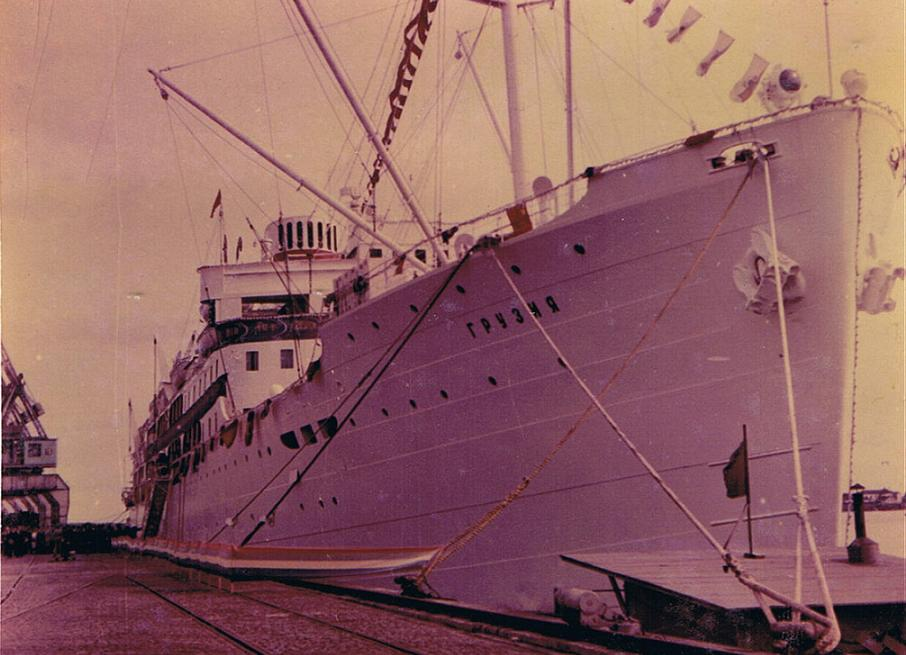 ship "Gruzja", former MS "Sobieski" in Helsinki 1962 y.